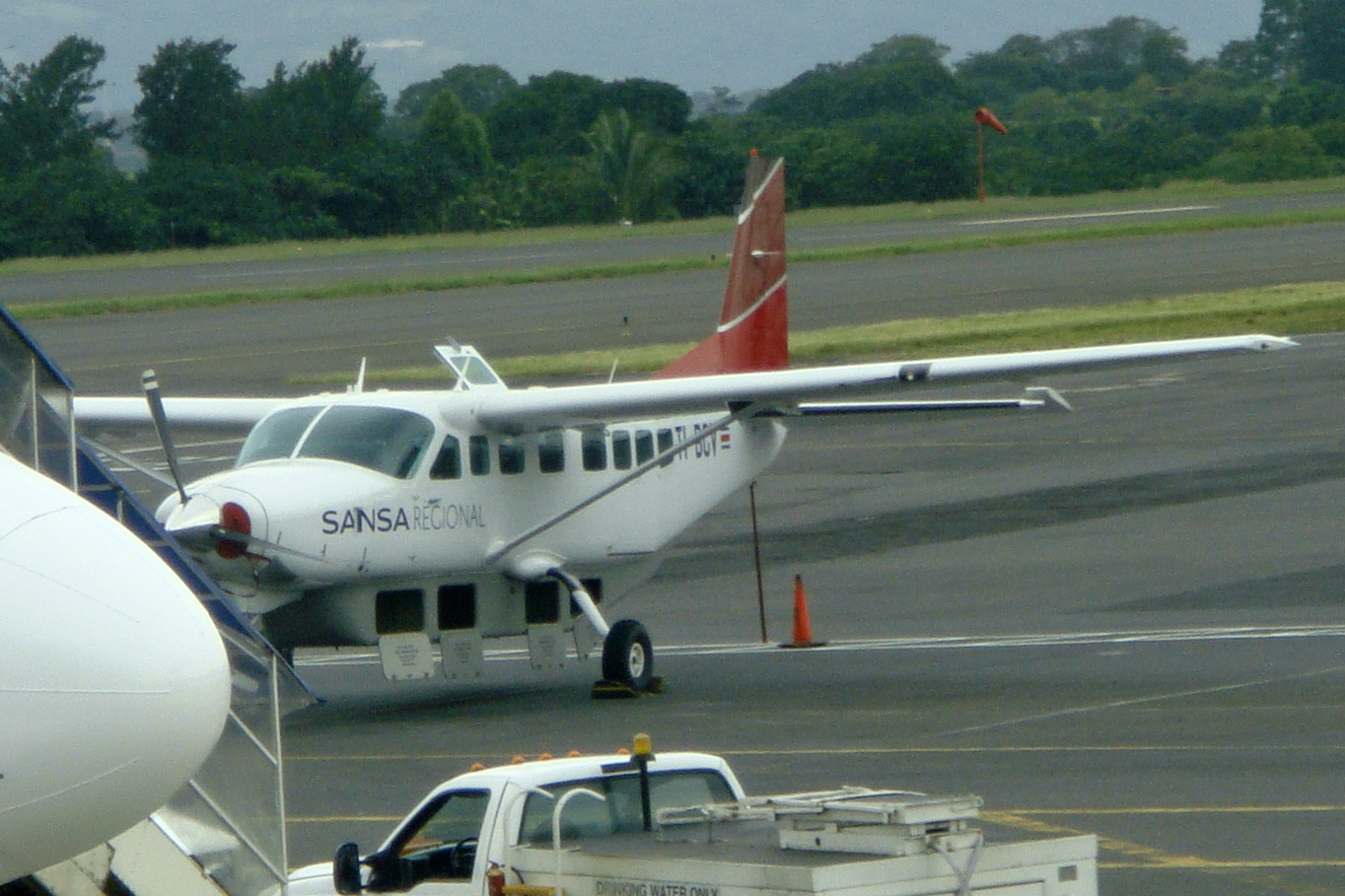 SANSA Regional operations area at Juan Santamaria International Airport (SJO), Costa Rica. SANSA belongs to Grupo TACA. Shown a typical SANSA aircraft with TACA's new logo paint